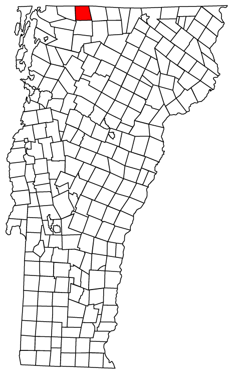 Map of Vermont towns with Berkshire highlighted